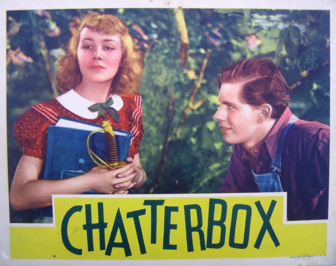 Lobby card for the American drama film Chatterbox (1936). The item has no copyright markings on it as can be seen in the links above. At bottom right is Country of origin USA.